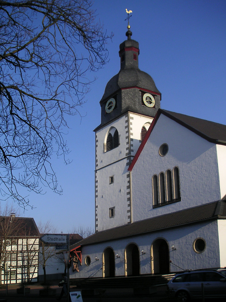 Catholic parish church "Saint Martin" in Rheinbach